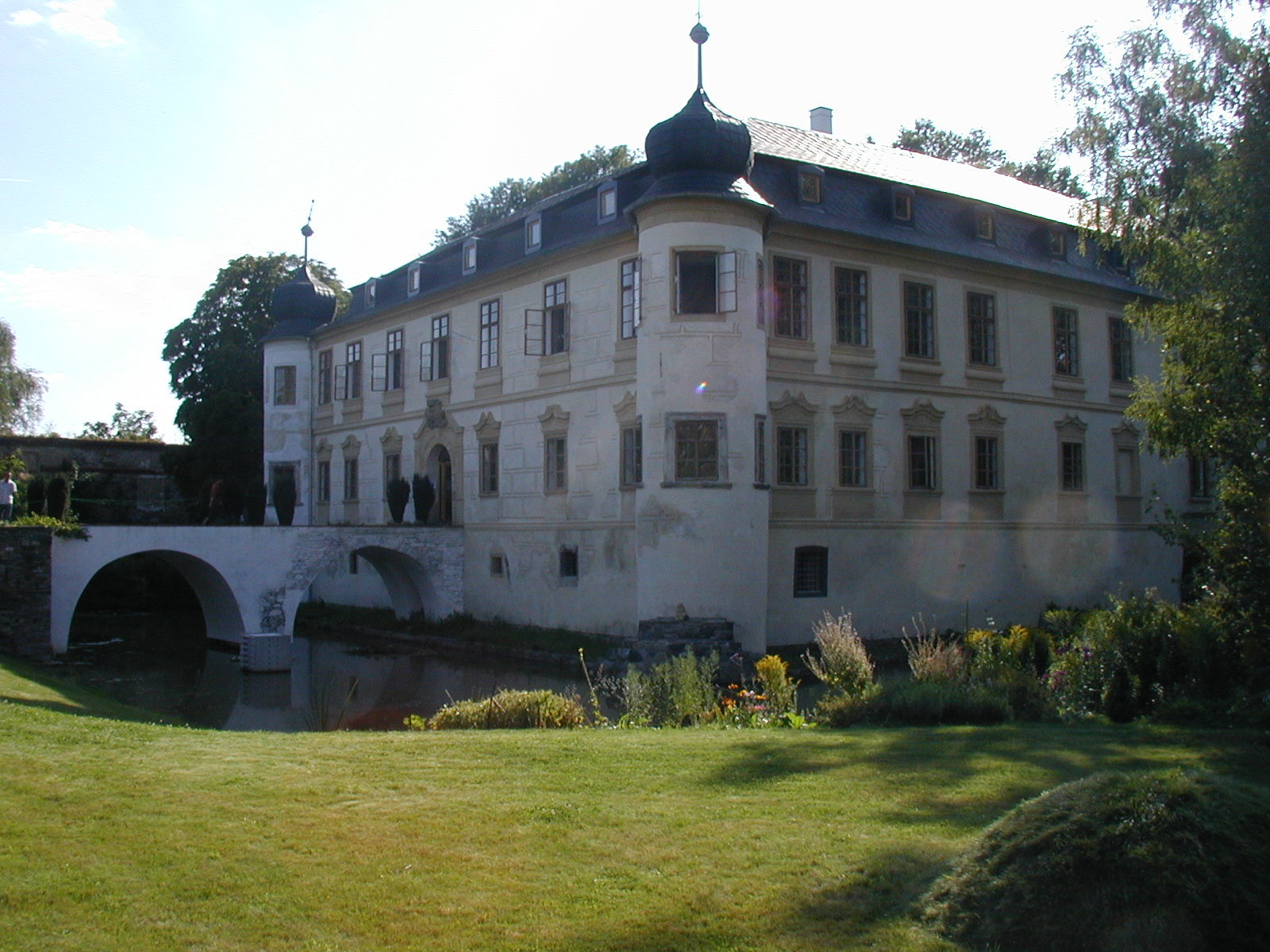 Třebešice (château_KH) B. View from North-East (Front and Right Wing), Kutná Hora District, the Czech Republic.